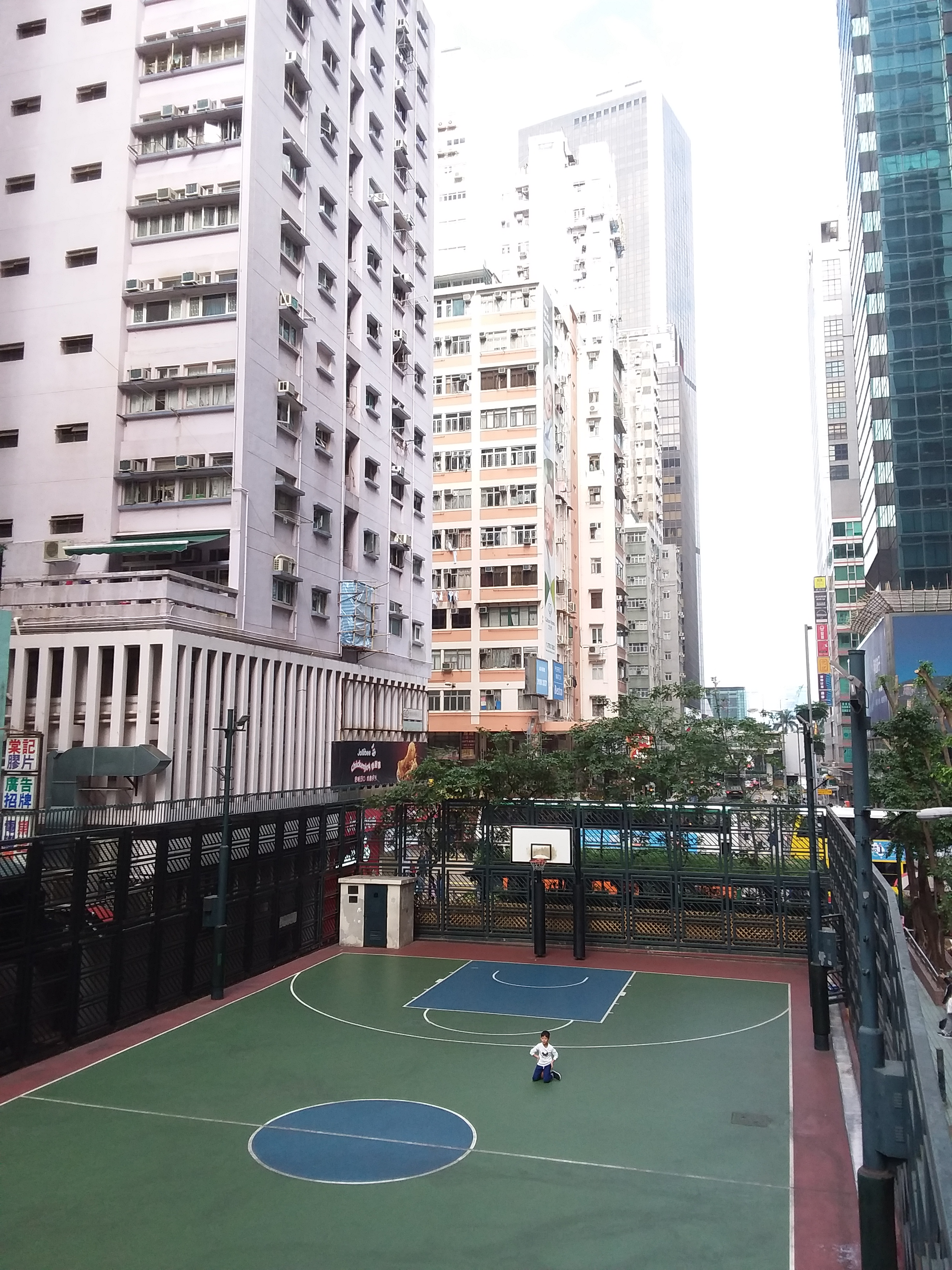 HK 灣仔 Wan Chai 軒尼詩道遊樂場 Hennessy Road Playground in December 2018